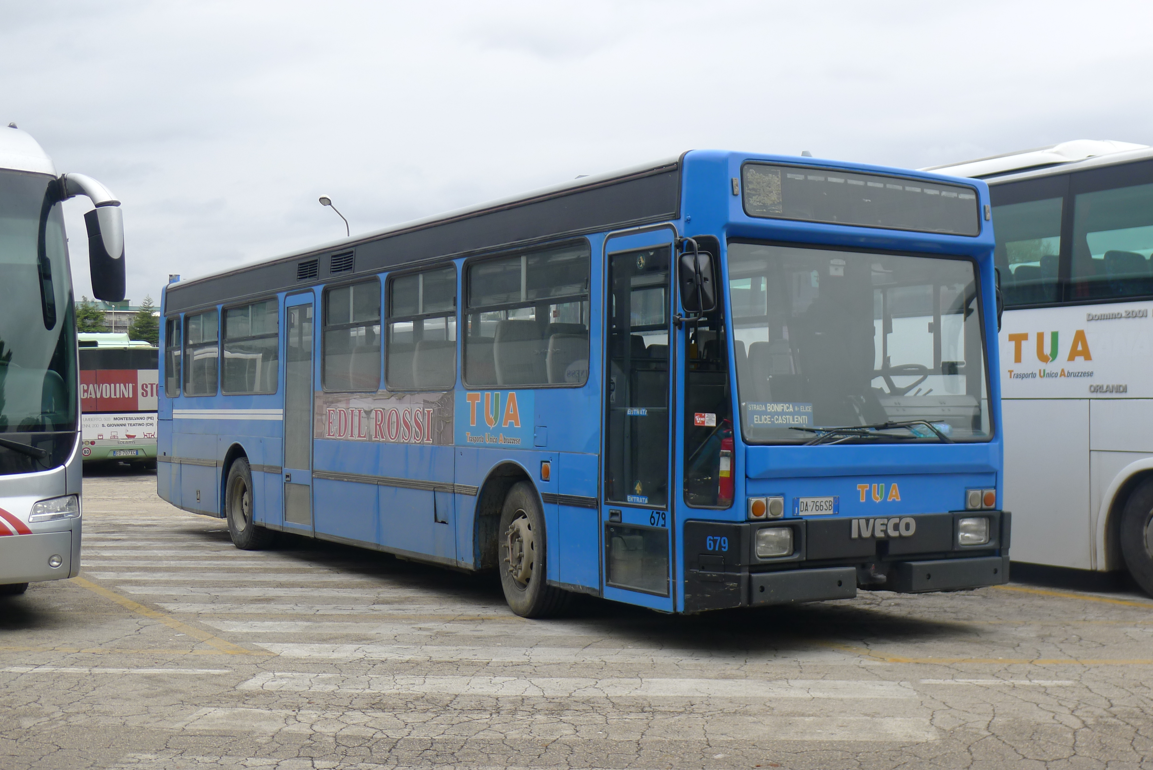 ARPA 679